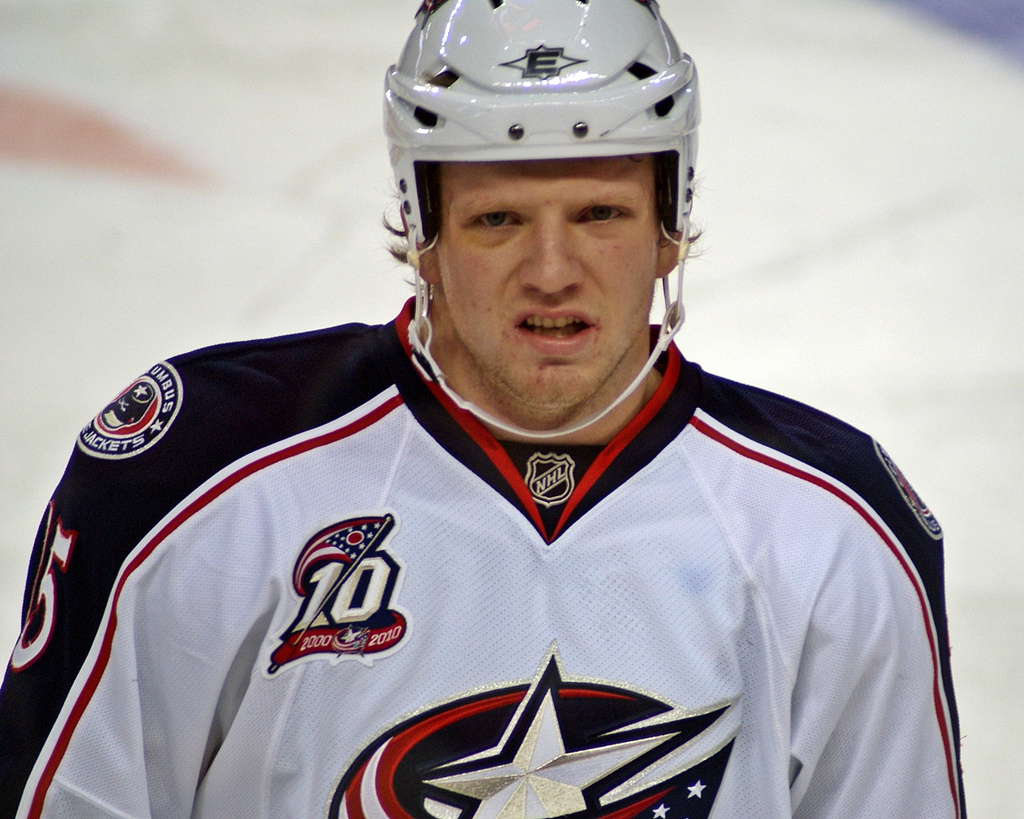 Derek Dorsett, born December 20, 1986, in Kindersley, Saskatchewan, is a Canadian hockey player currently with the Columbus Blue Jackets of the National Hockey League. This NHL game action photo was taken December 13, 2010 at the Scotiabank Saddledome in Calgary, Alberta.